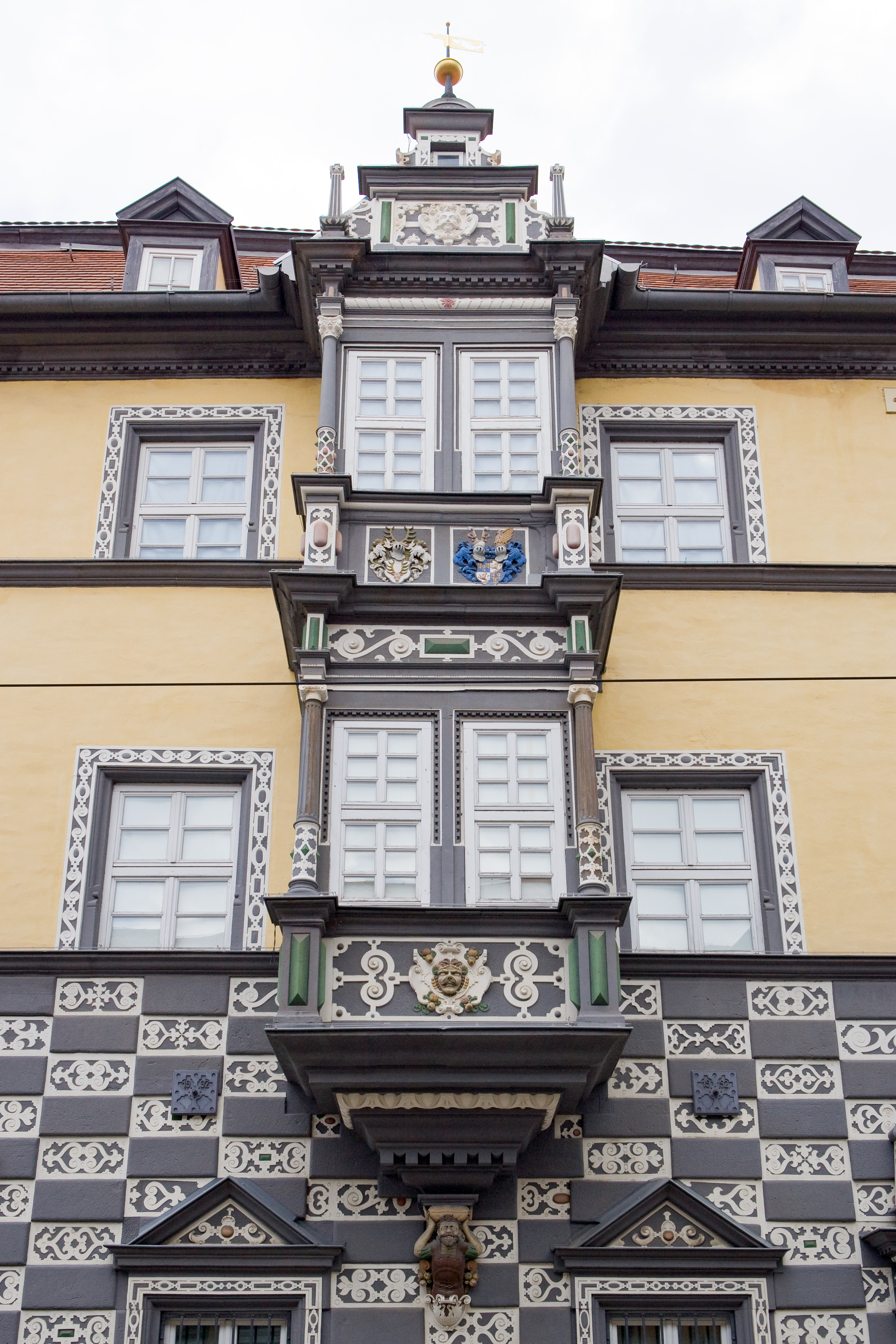 Erfurt: Haus zum Stockfisch (House to the Stockfish), bay window as seen from the west